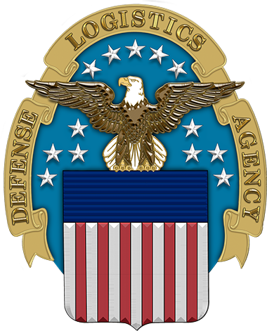 Seal of the Defense Logistics Agency